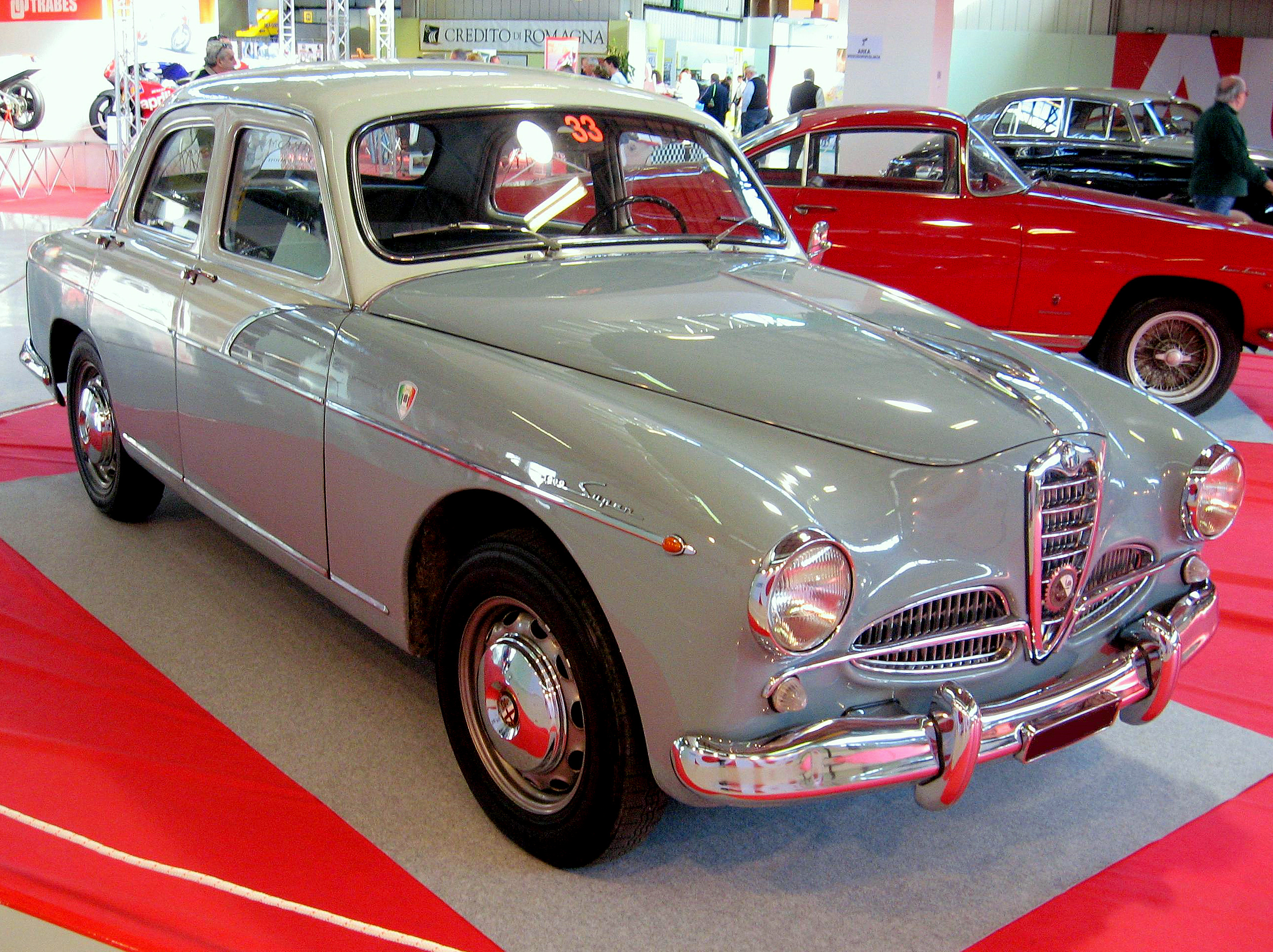 Subject: Alfa Romeo 1900 berlina (front view) Author: Luc106 Date: 18th march 2007 Place: Forlì (Italy) Event: Old Time Show I release all rights in the public domain.